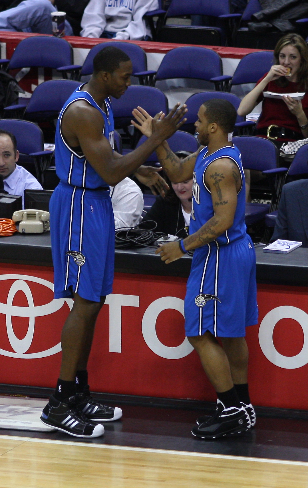 Jameer Nelson (right) and Dwight Howard (left)